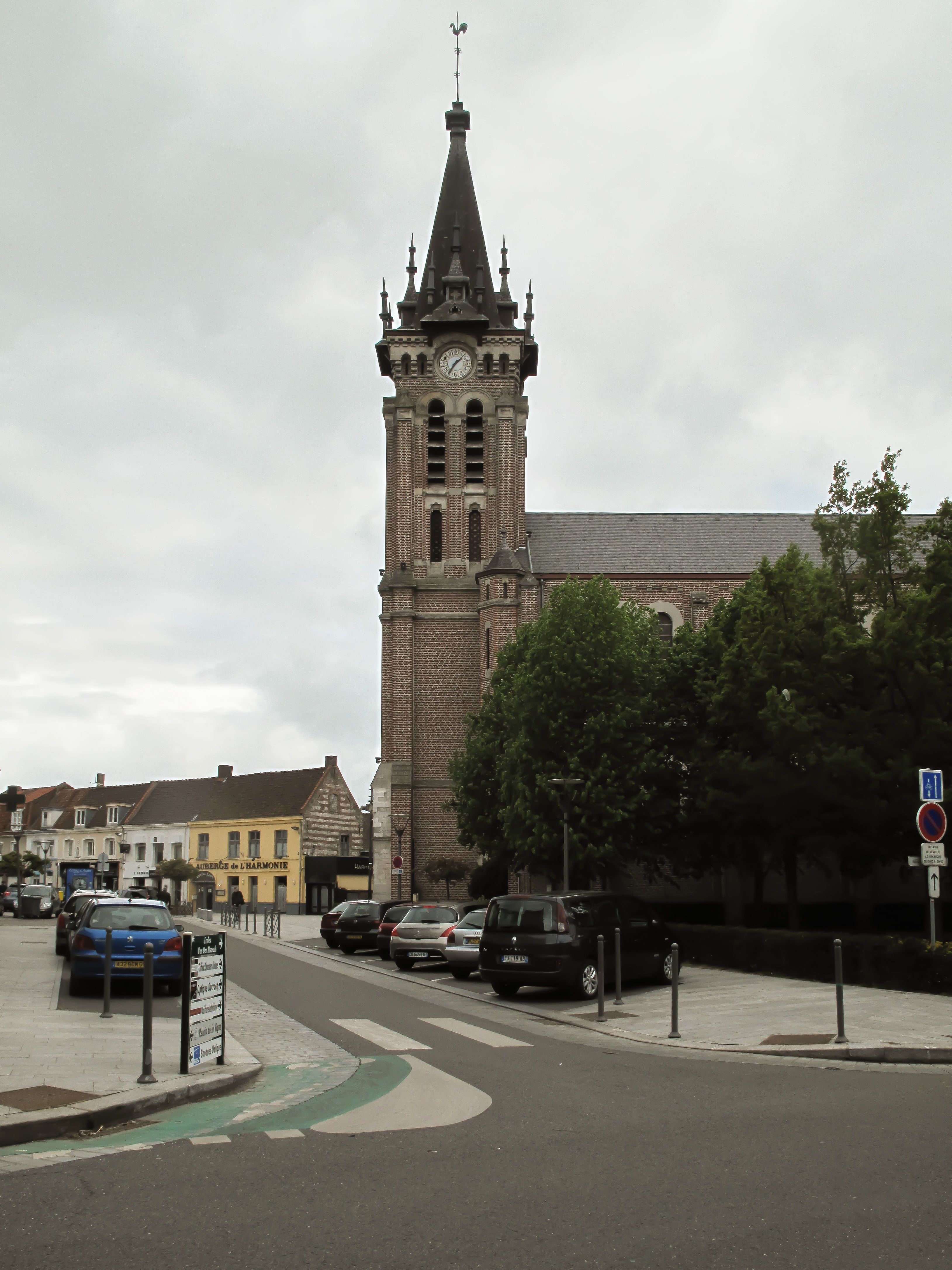 Bondues, church